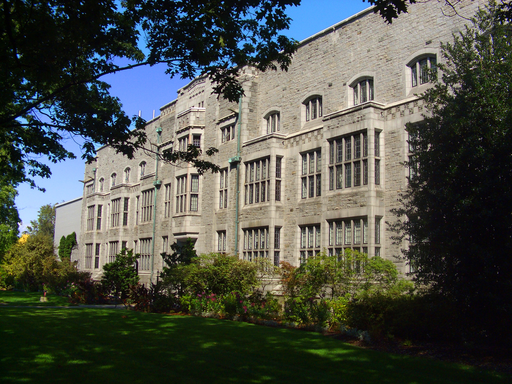 Chemistry Building at the University of British Columbia, Campus Vancouver